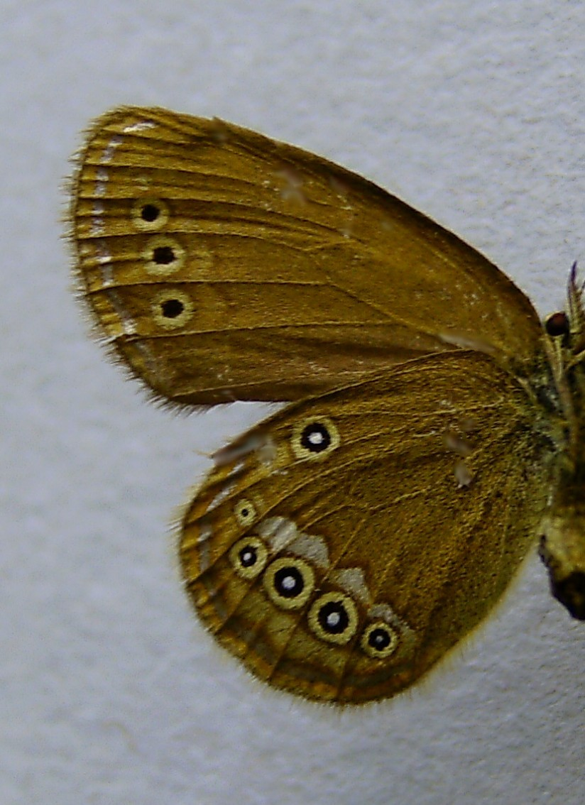 Coenonympha oedippus.backside female